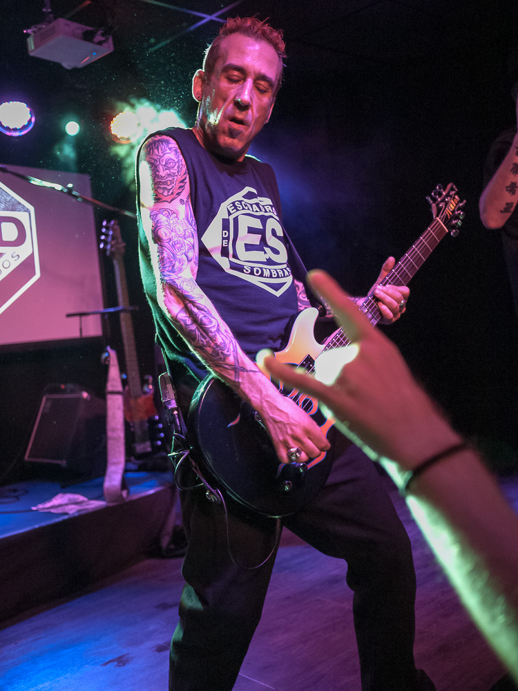 Def Con Dos - Zaragoza .es/2014/05/def-con-dos-zaragoza-sala-lo...